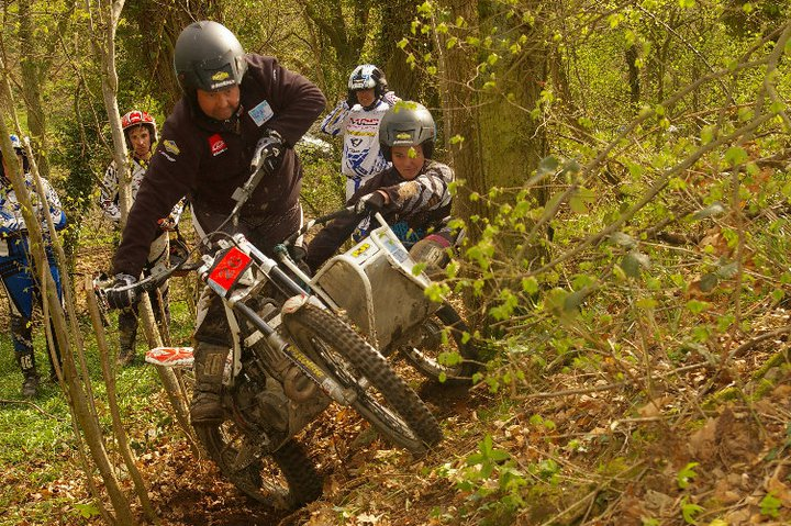 A sidecar passenger holding the weight of the sidecar and the driver in an observed section.